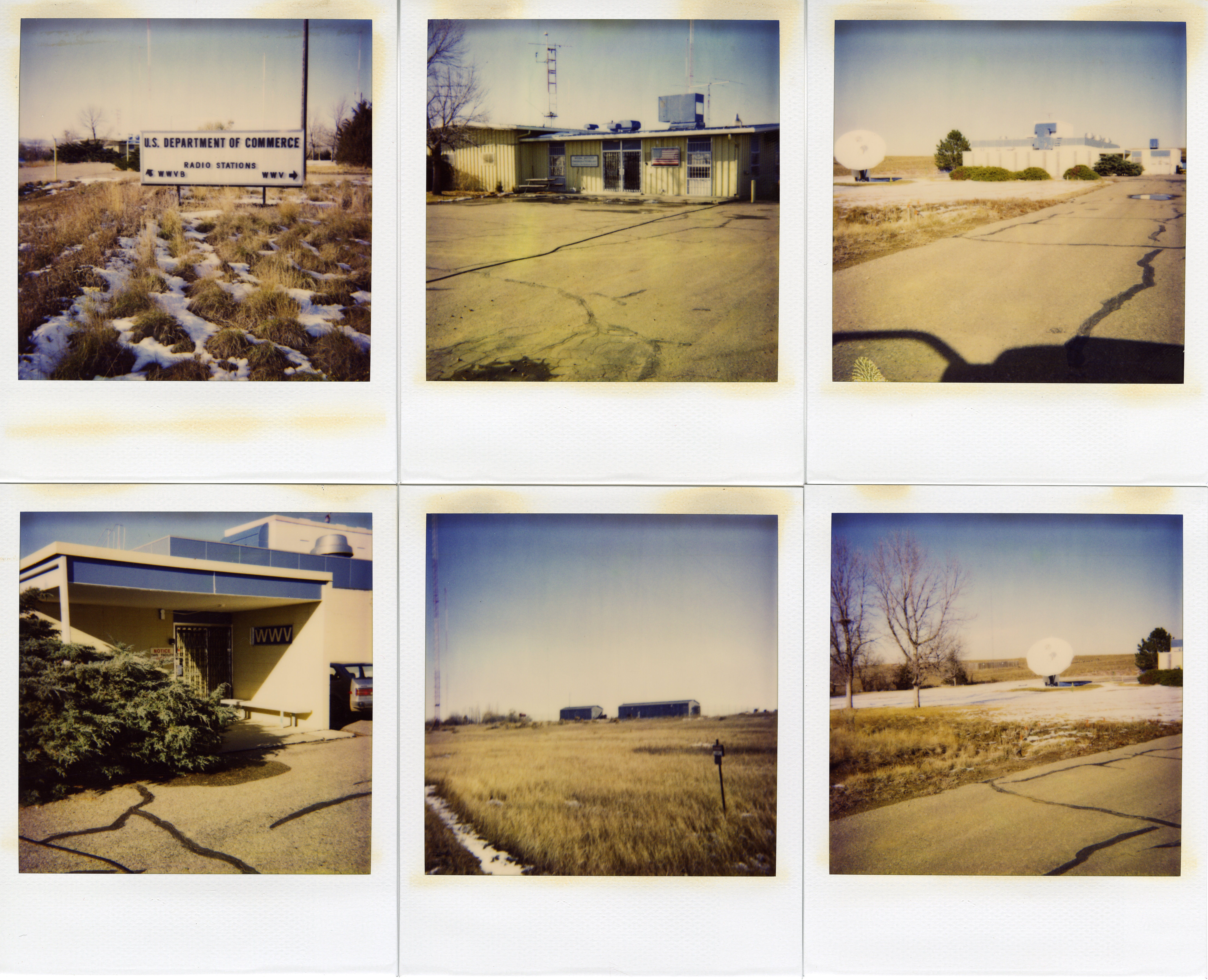 WWV radio station in Boulder, CO